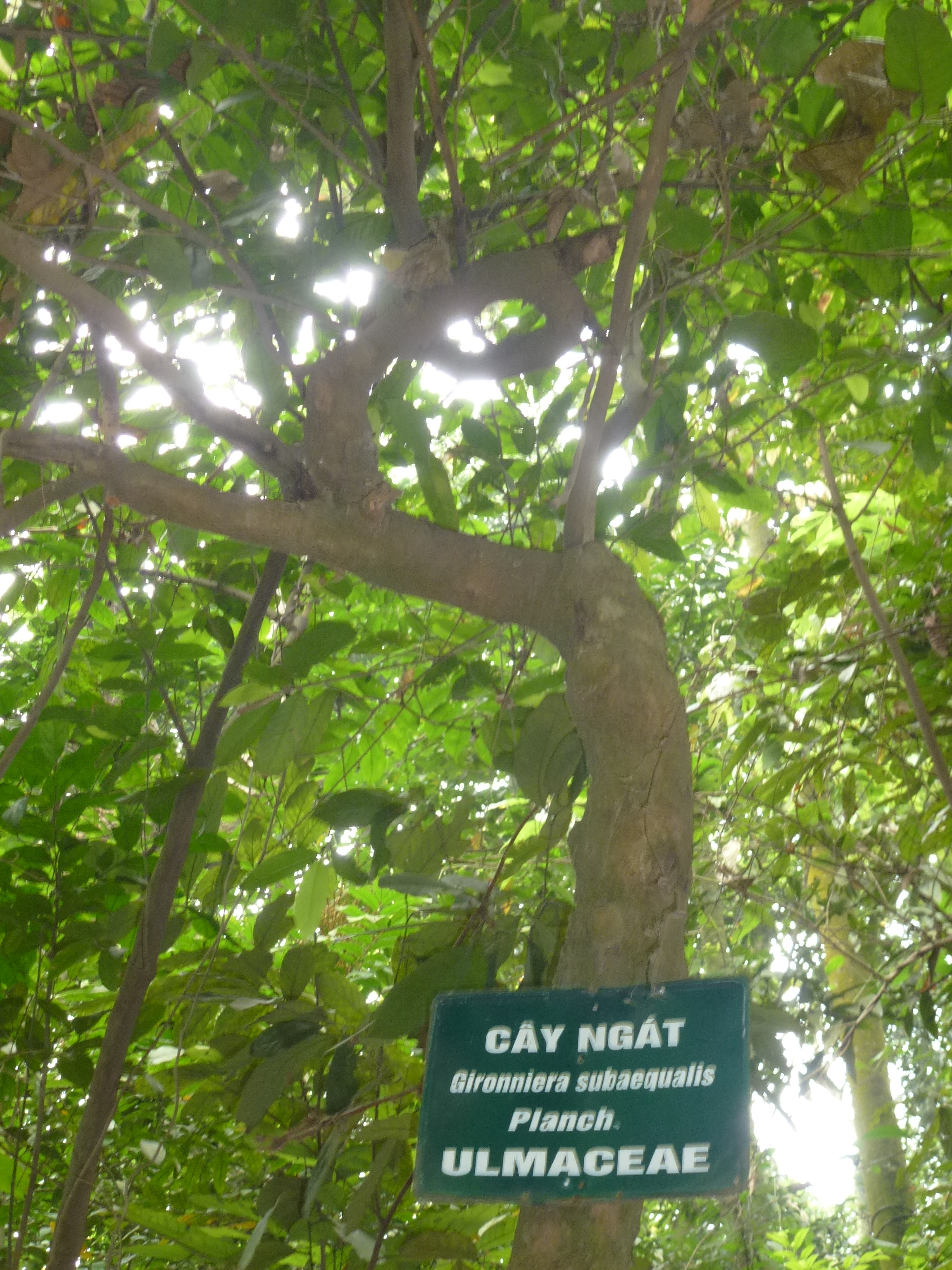 Gironniera subaequalis at Hùng Temple, Vietnam